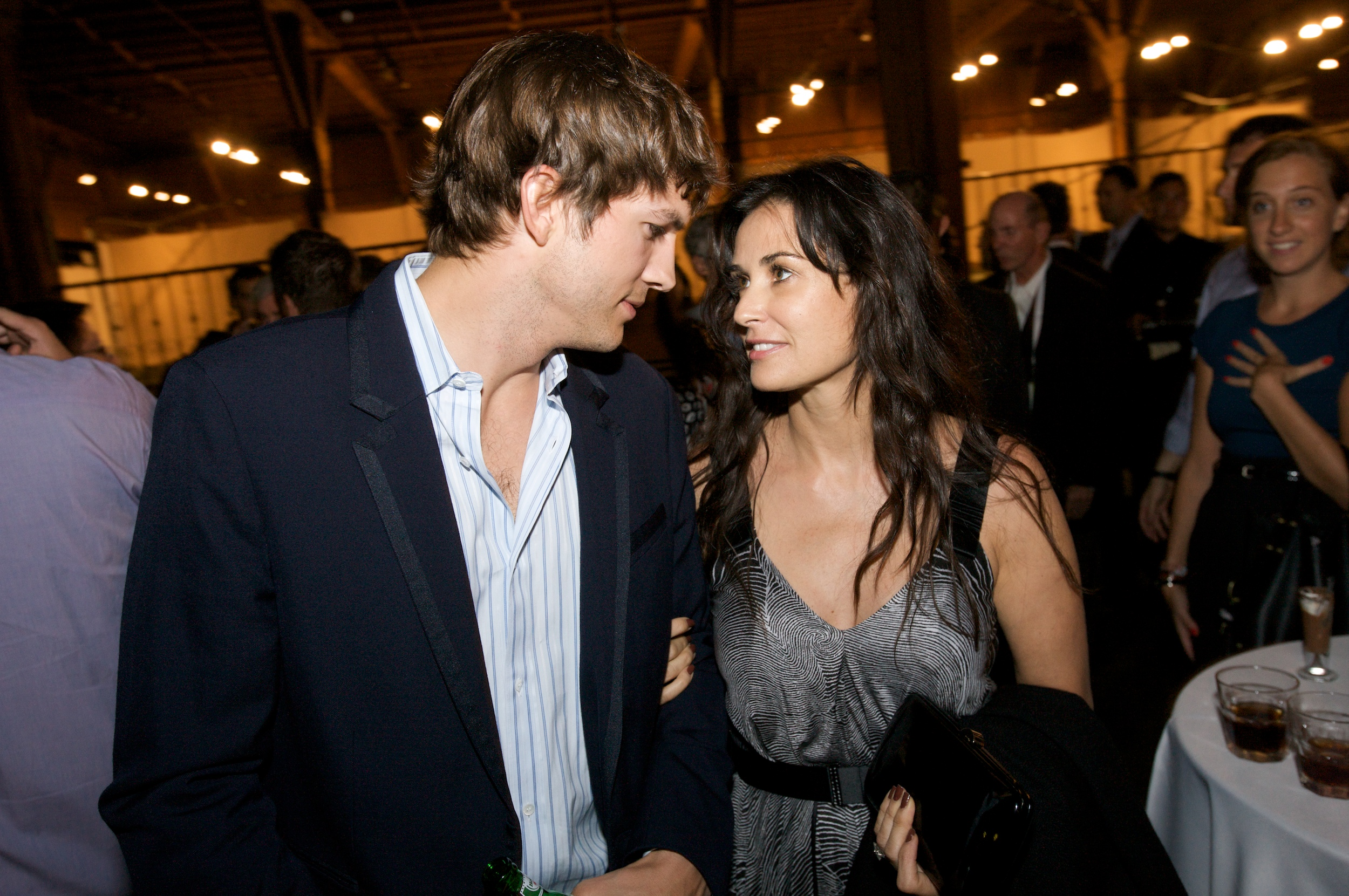 Demi Moore and Ashton Kutcher at TechCrunch50 2008